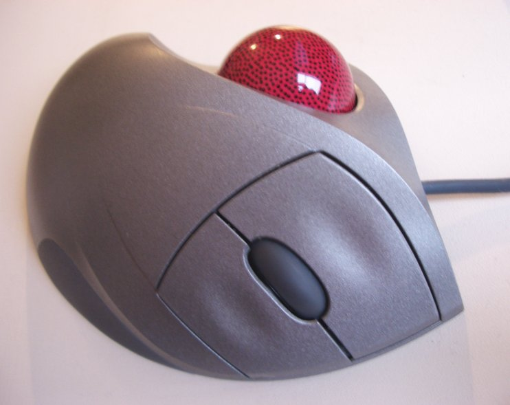 Trackball (Logitech TrackMan)